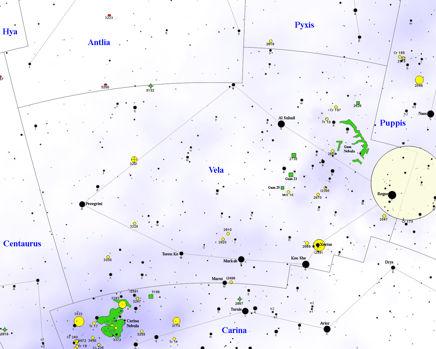 Vela constellation map, with DSOs